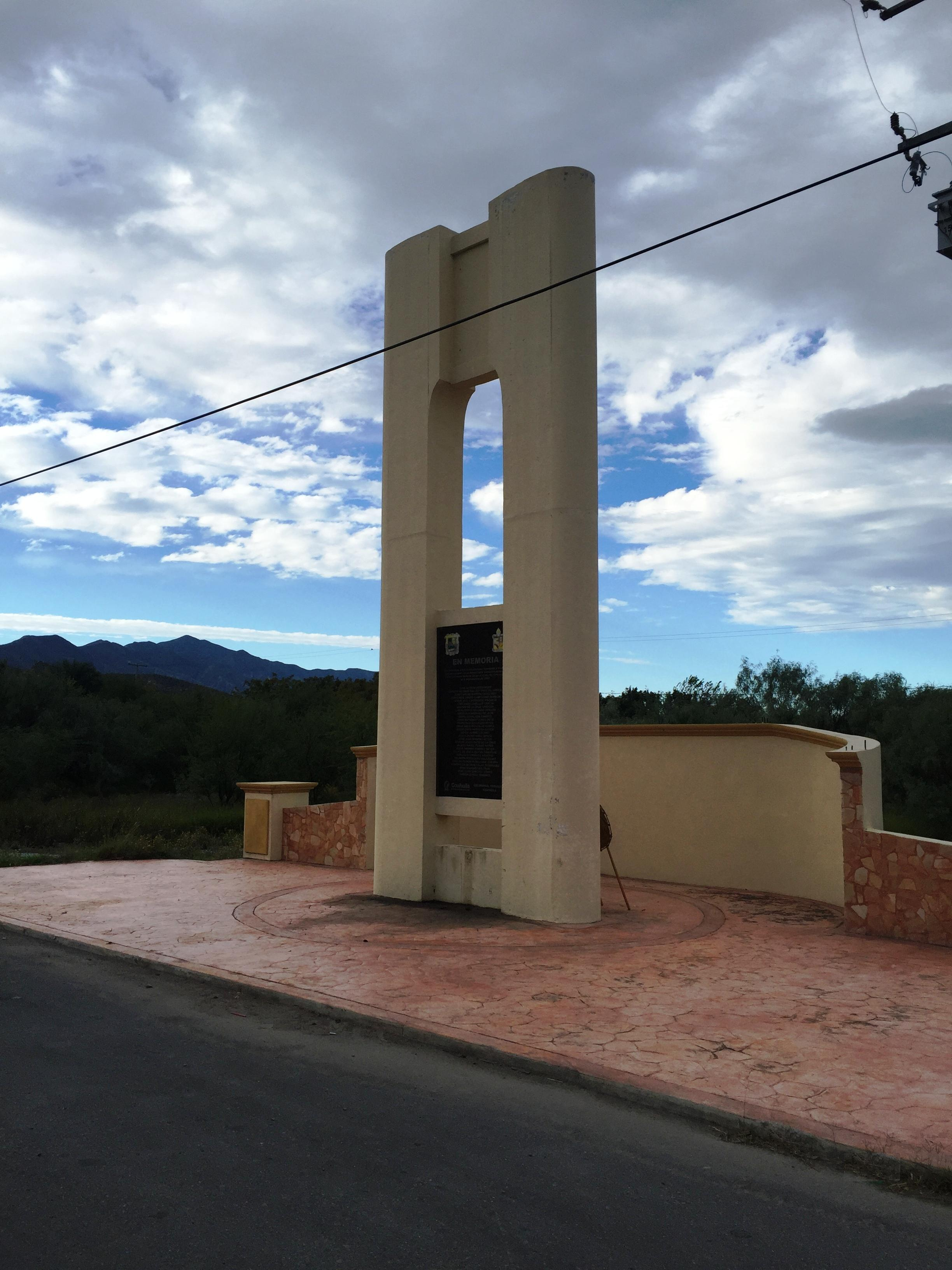 Vista General del Monumento a las víctimas de la explosión de Septiembre del 2007